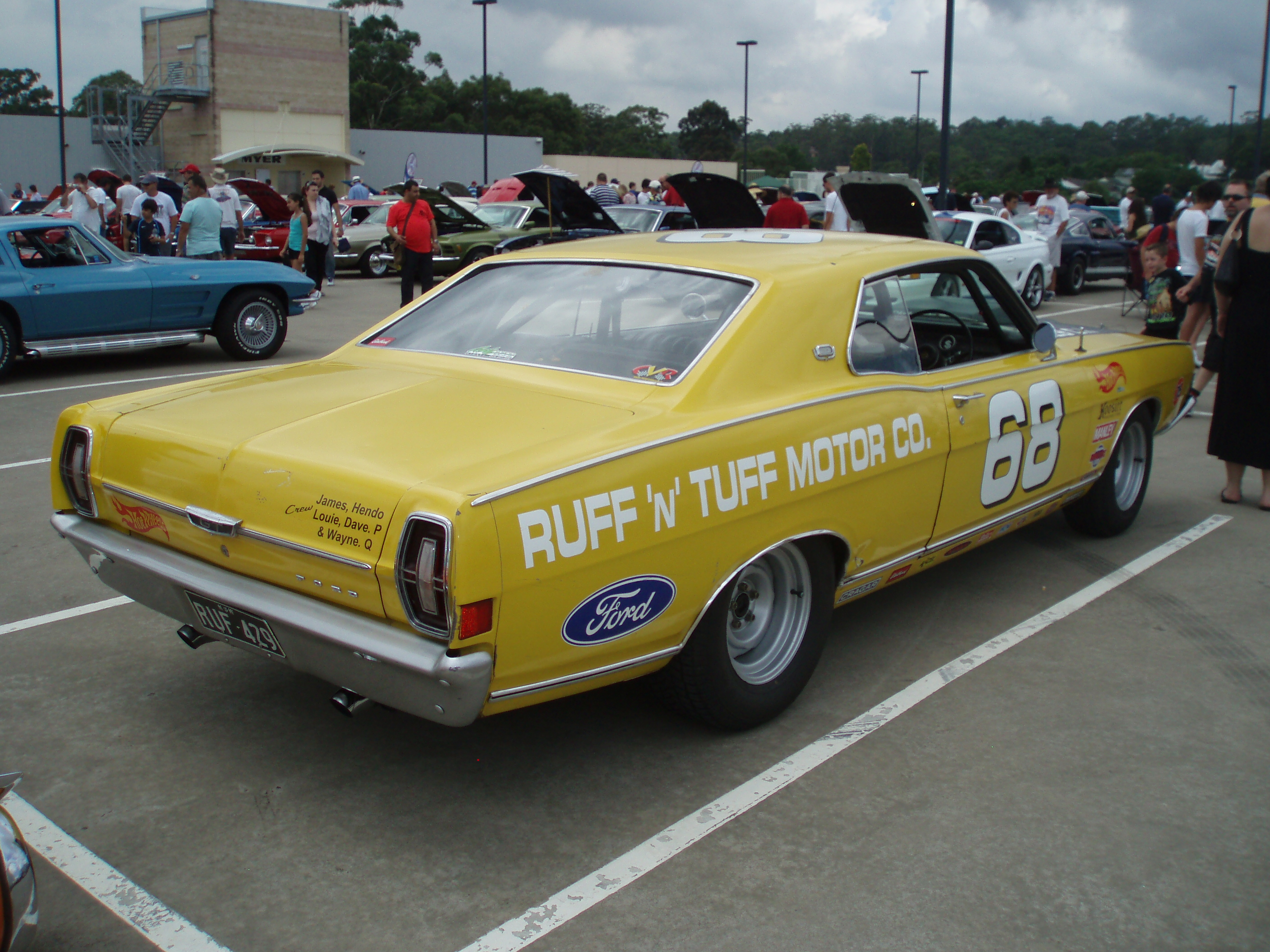 1968 Ford Torino GT coupe. Taken at the 2011 New South Wales All American Day, held at Castle Towers Shopping Centre, Castle Hill, Sydney.